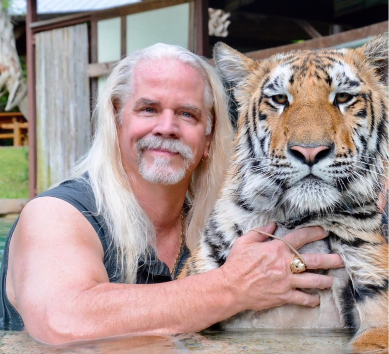 Doc Antle with tiger at Myrtle Beach Safari